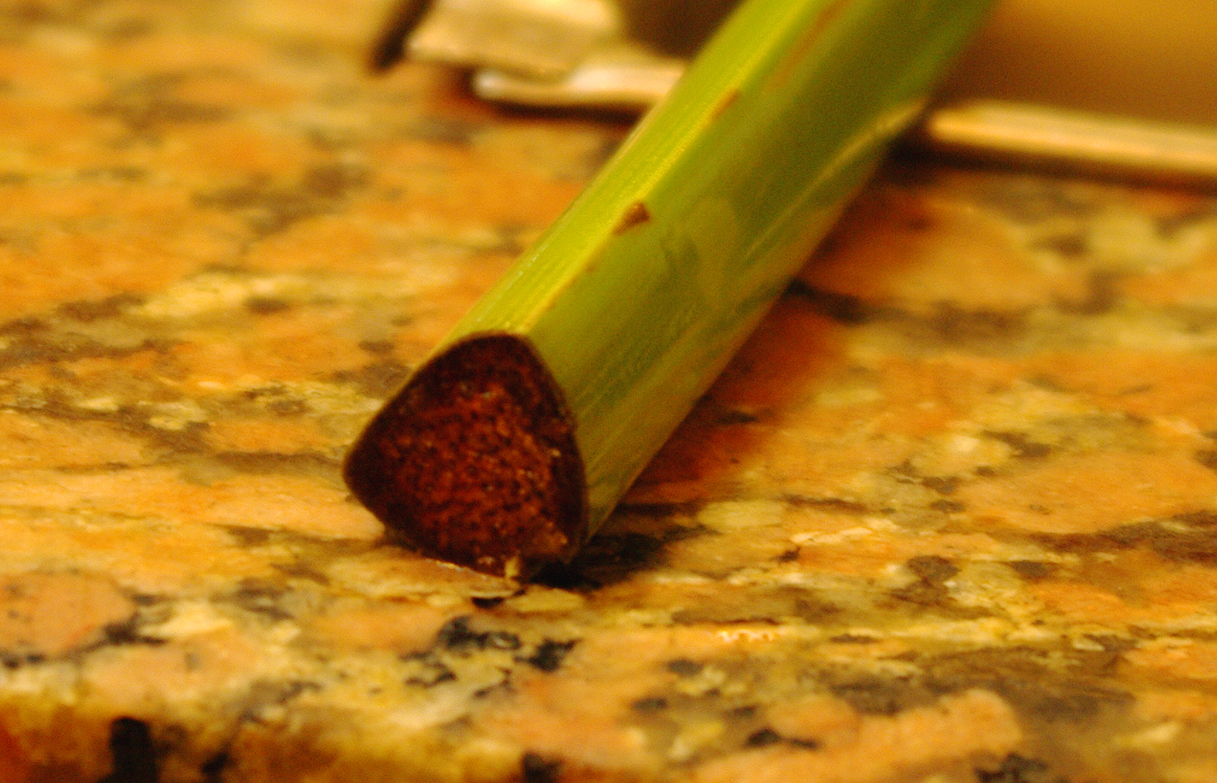 Caulis cut of cyperus papyrus.